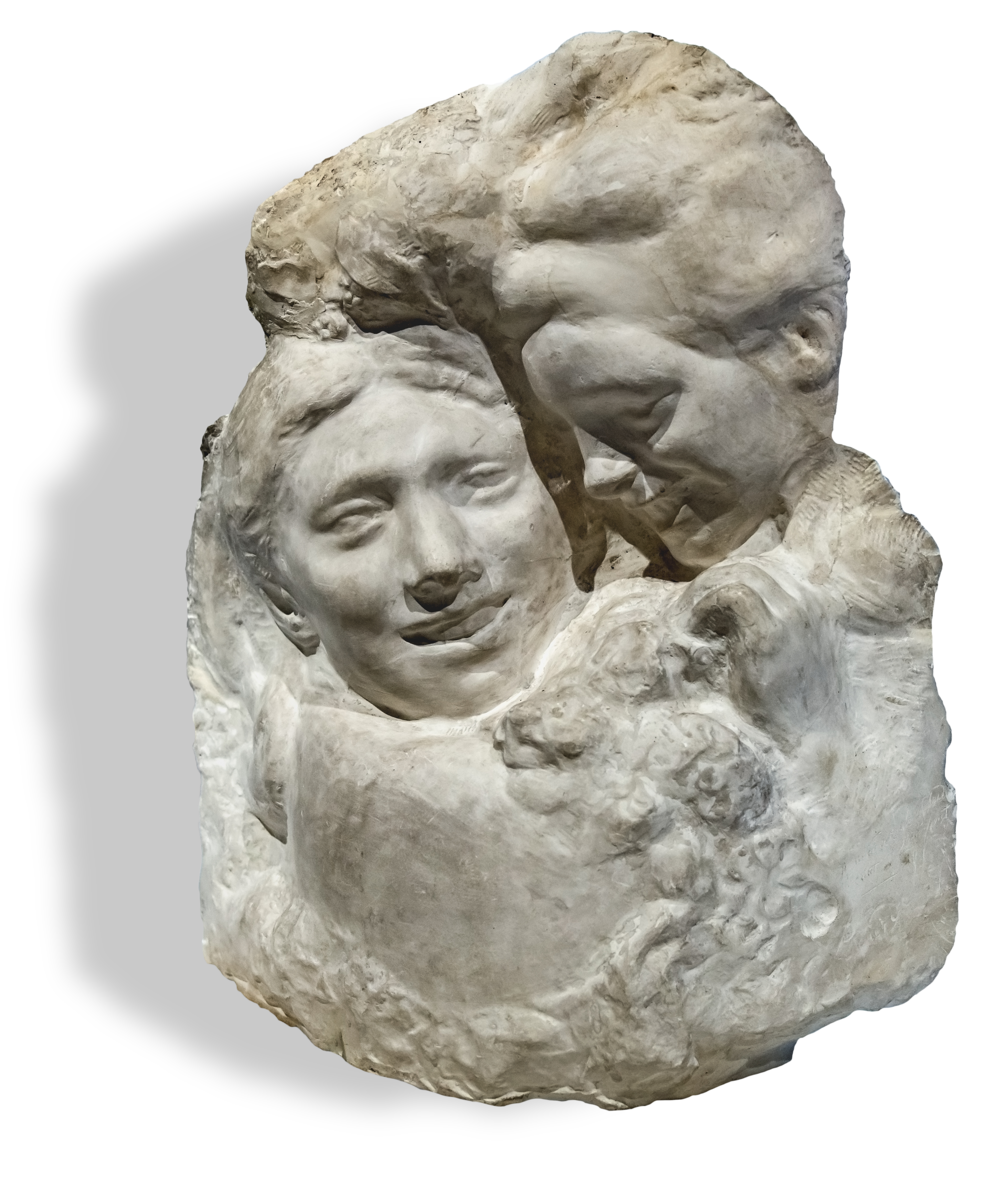 The faces are those of Mesdemoiselles Suzanne Marcel and Judith Cladel (Biographer of Rodin and daughter of the writer Léon Cladel)